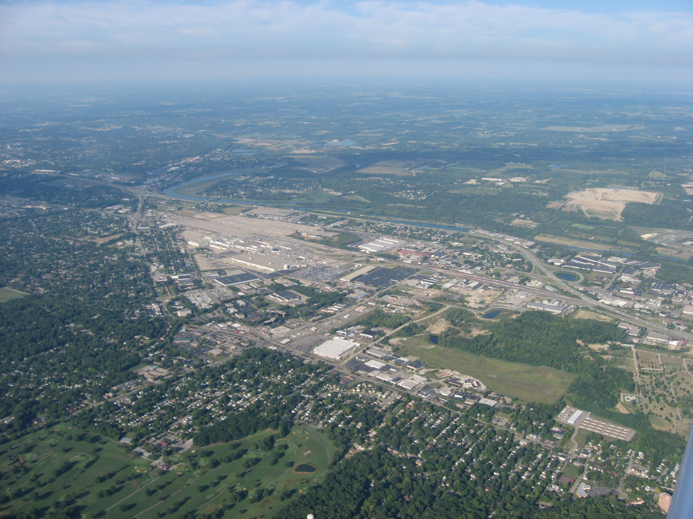 Aerial view of downtown Moraine, a city in Montgomery County, Ohio, United States. Interstate 75 is the major highway running along the Great Miami River on the far side of downtown. Picture taken from a Diamond Eclipse light airplane at an altitude of 4,500 feet MSL and a bearing of approximately 240º.